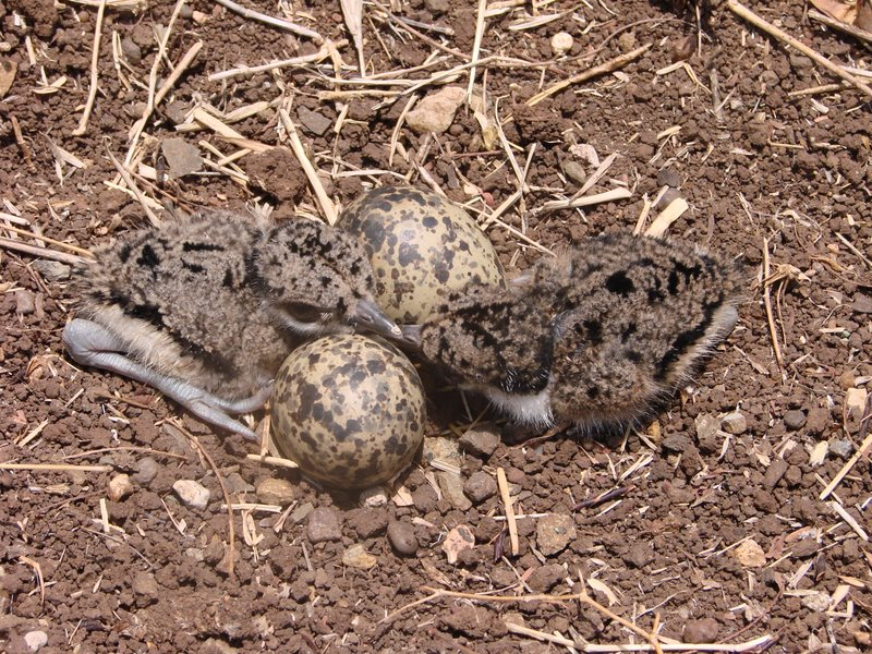 Chicks and eggs of Red-wattled Lapwing Vanellus indicus in a scrape nest.